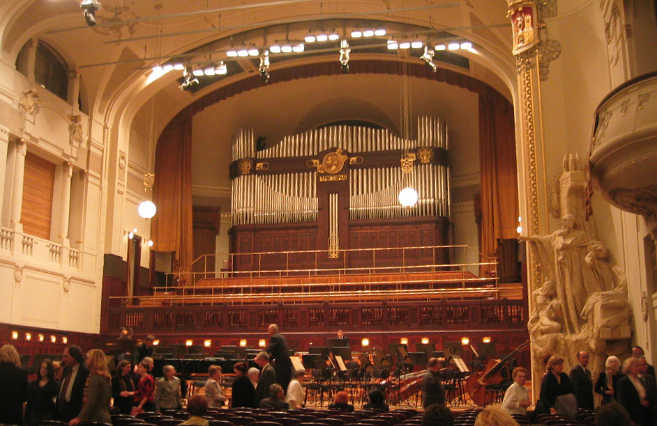 Concert hall dedicated to Bedřich Smetana in the Municipal house of Prague